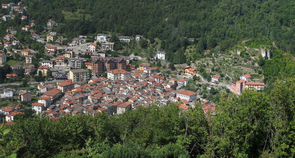 Landscape of Ormea, in the high Tanaro valley, Piedmont, Italy